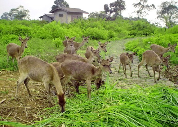 A Javan deer (Rusa) herd grazing in its natural habitat mount Salak, Indonesia. The herd sometimes graze in the local village